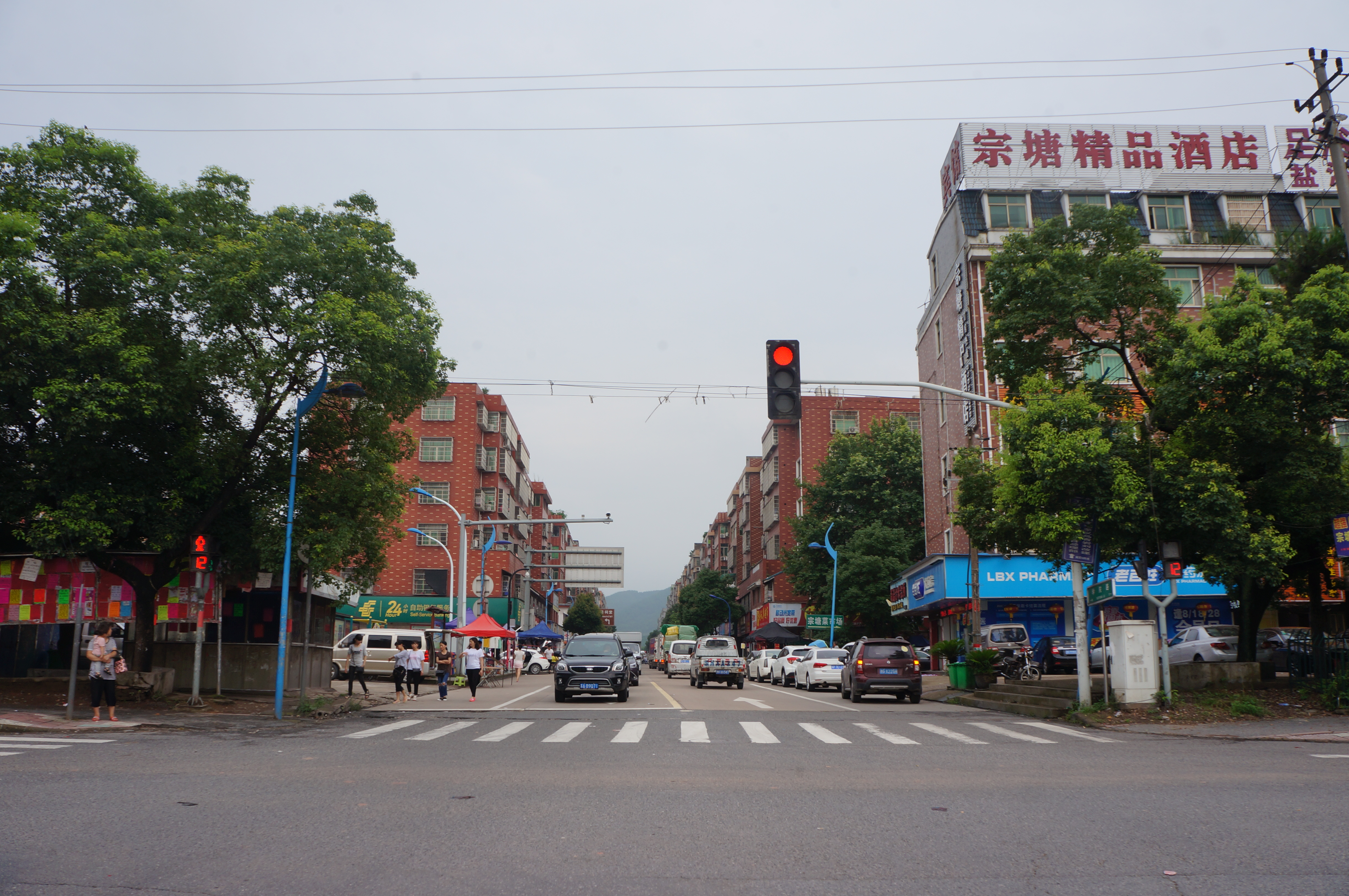 201706 Entrance of Zongtang Village. Located south to the South Ring Road.